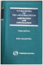 Book on O.P.Malhotra on Law and Practise of Arbitration, 2014